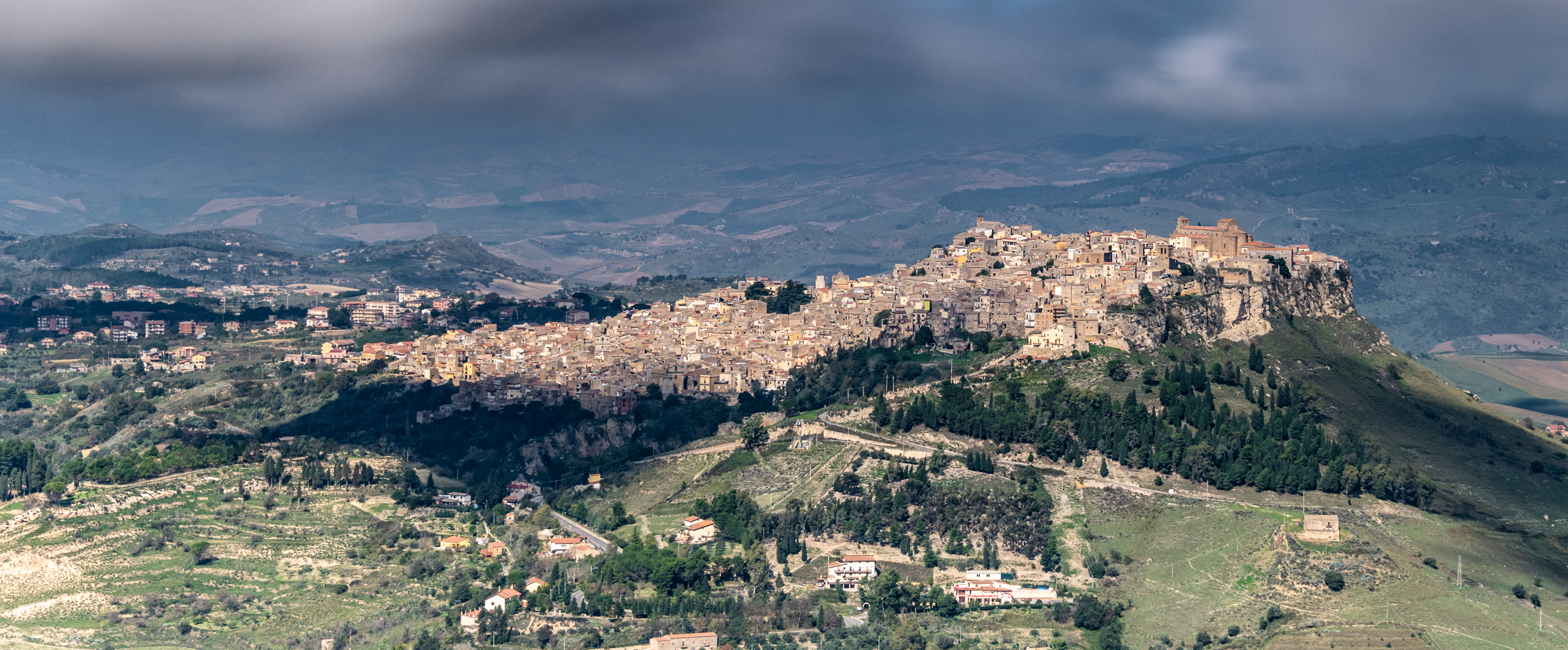 City of Calascibetta, Sicily, Italia. View from Enna, Castello Lomardia